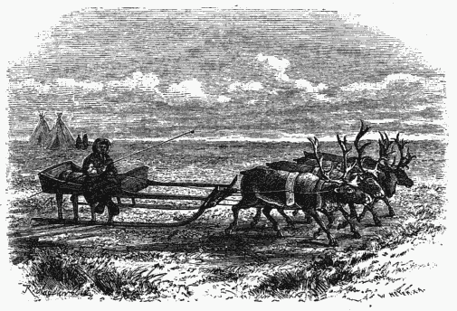 (Removed after reusableart request.)